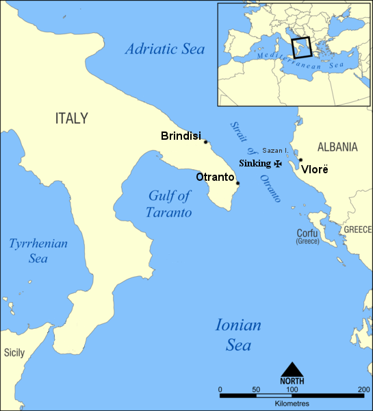 Location of sinking in Otranto Straits, 1997.